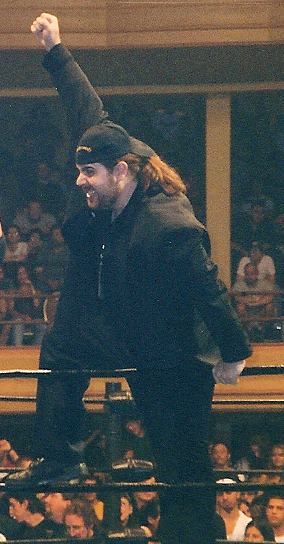 Professional wrestling manager Sign Guy Dudley in August 2000.